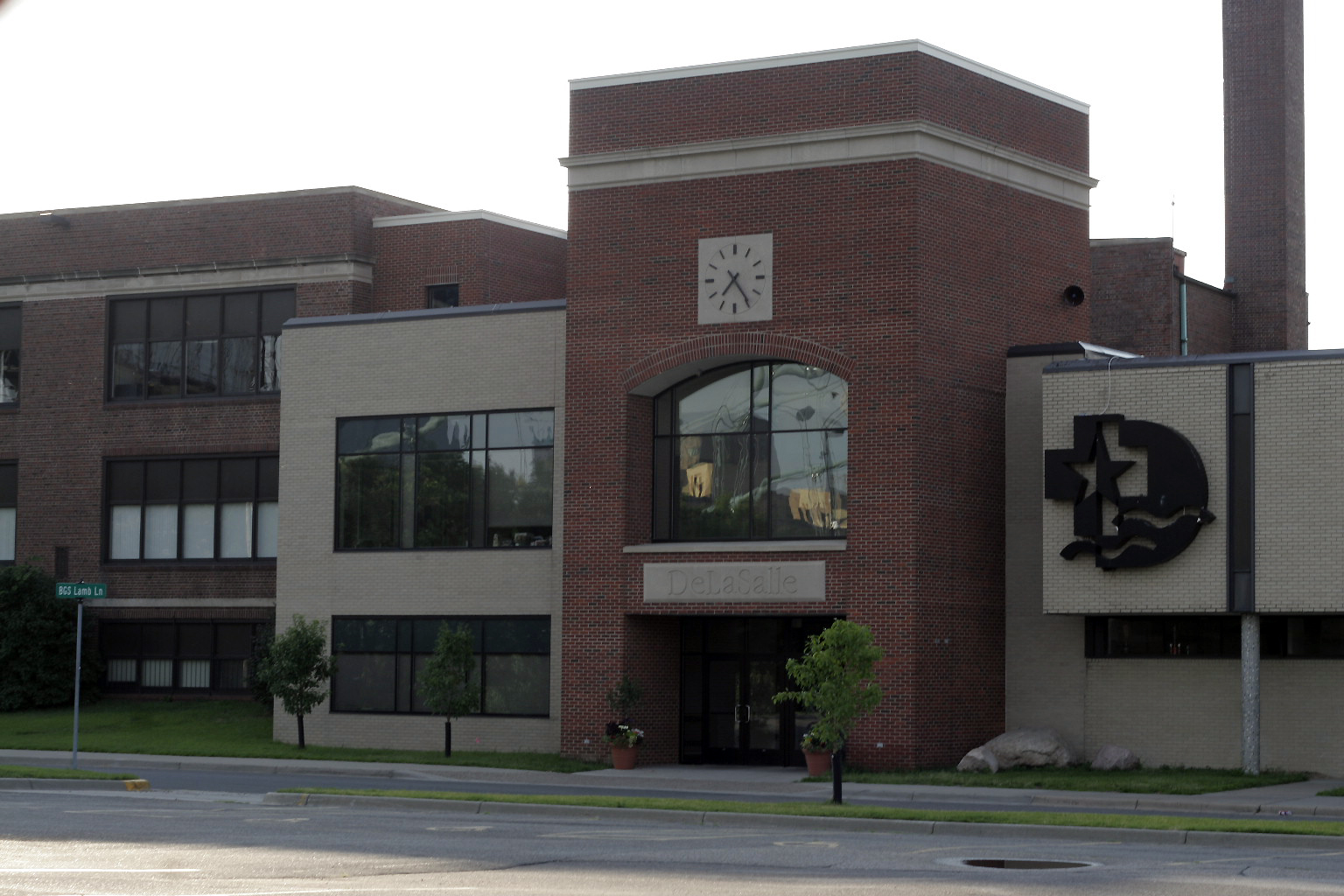 DeLaSalle High School, Minneapolis, in July 2006